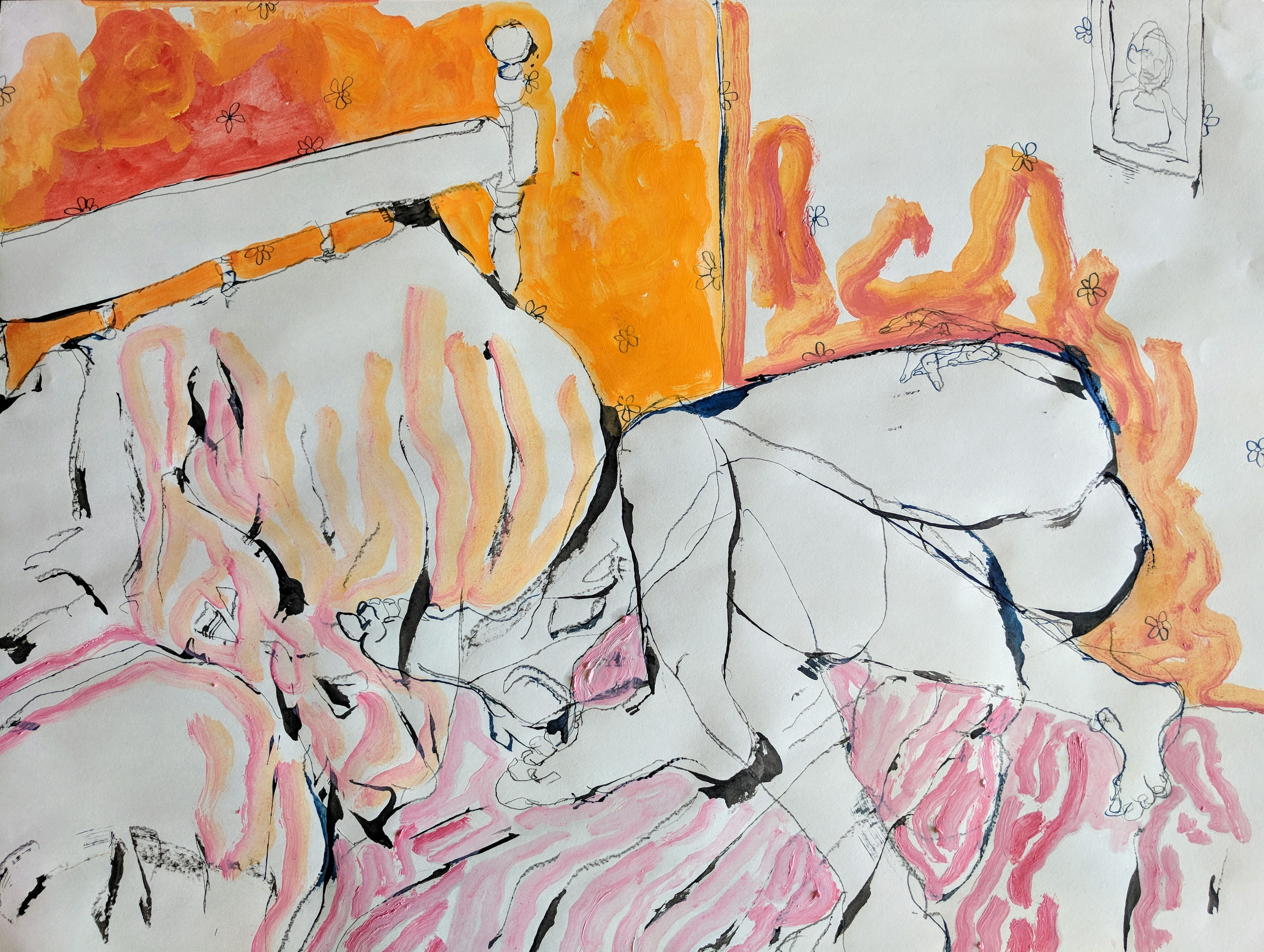 L'Appel du Vide painting, 2018.